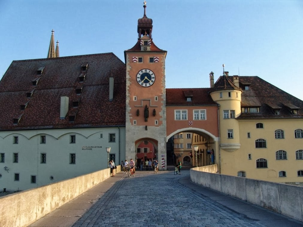 Old city gate in Regensburg